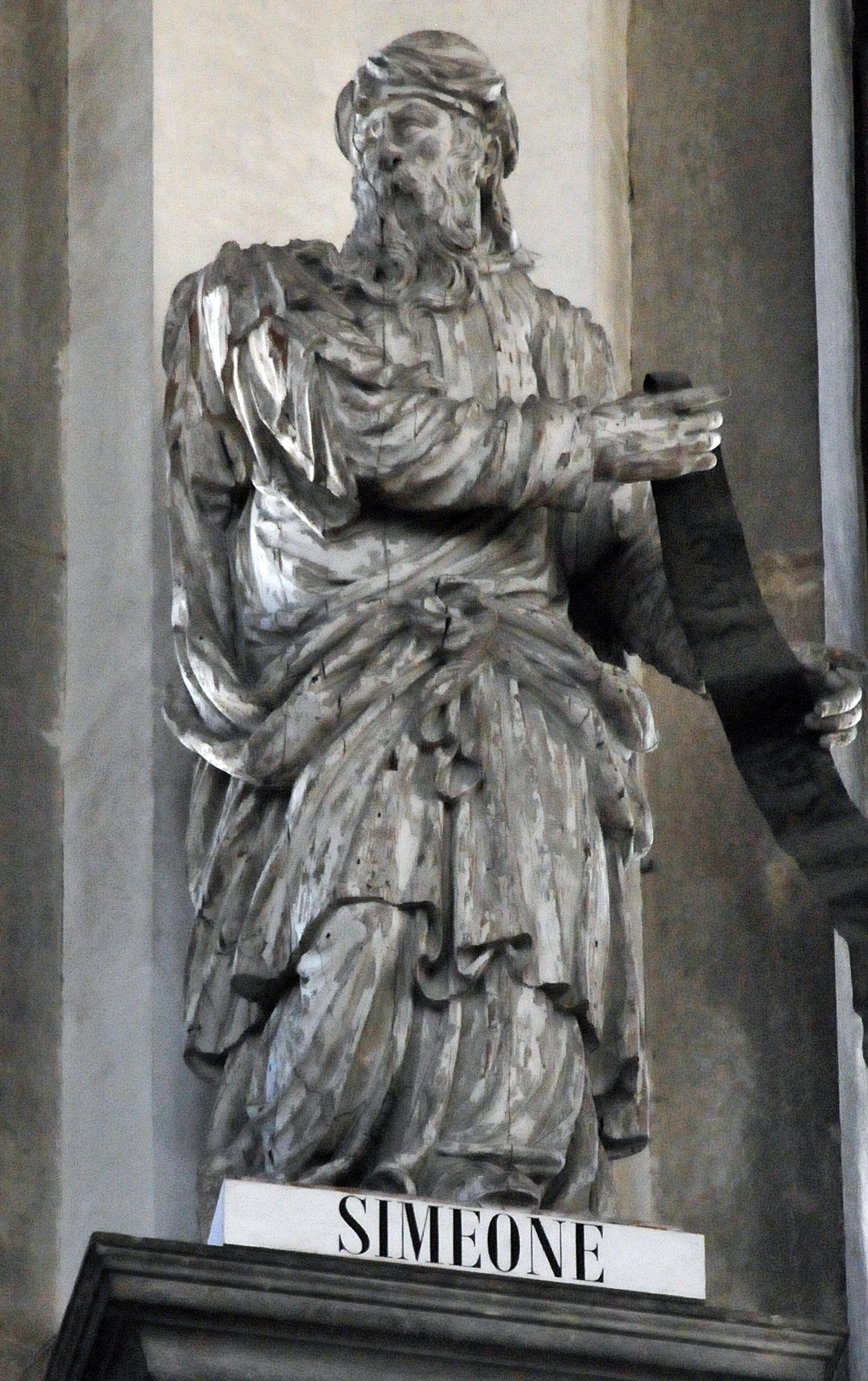 The Prophet Simeon in a wooden sculpture by Tommaso Rues in Santa Maria della Salute Venice